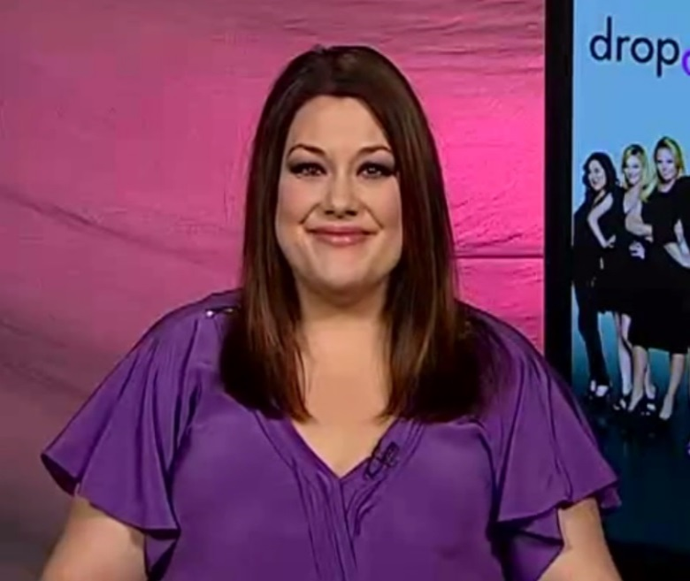 American actress and singer Brooke Elliott, being interviewed on the Valder Beebe Show about her Lifetime Television Series Drop Dead Diva.